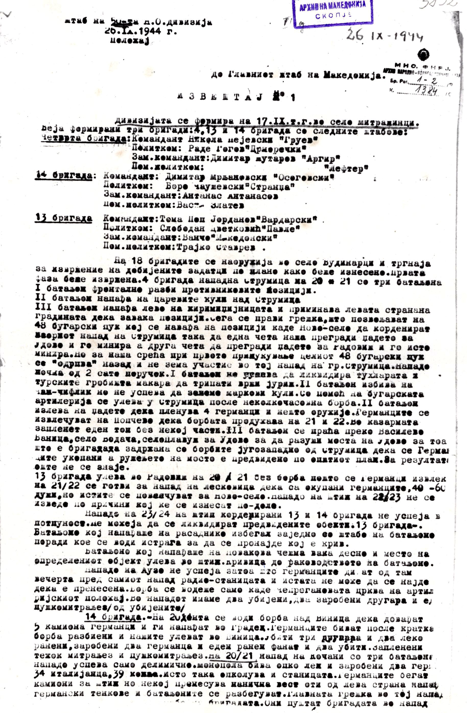 A report from the Staff of the 50 division sent to the GS of Macedonia regarding the formation of the 4, 13 and 14 brigades (26 September 1944). This media file is produced by Wikipedian in Residence in Category:Wikipedian in Residence at DARM in 2017.